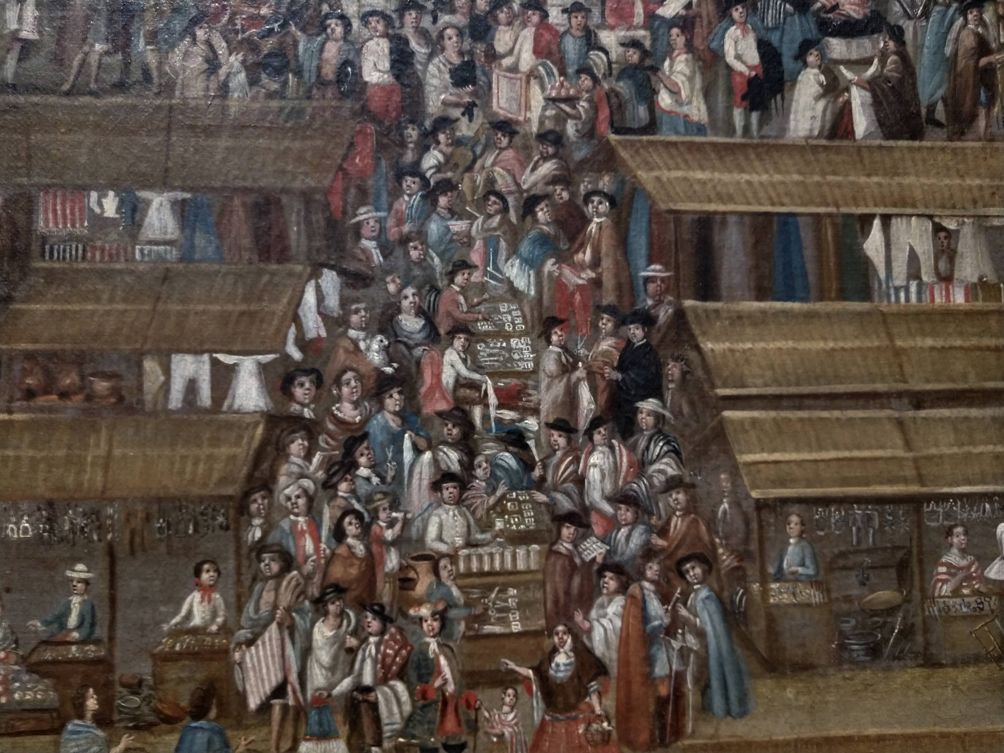 Main Square of Mexico City by Diego García Conde 1765 Oil on canvas National Museum of History of Mexico, room 2.